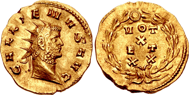 Gallienus. AD 253-268. AV Aureus (19.5mm, 4.12 g, 6h). Mediolanum (Milan) mint. Issue 3(2), AD 262. GALLIENVS AVG, radiate head left / VOT/X/ET/XX within wreath. MIR 36, 1065c; RIC V (sole reign) 95 (Rome); Calicó 3667. Good VF, toned, a couple of tiny edge marks. Rare.